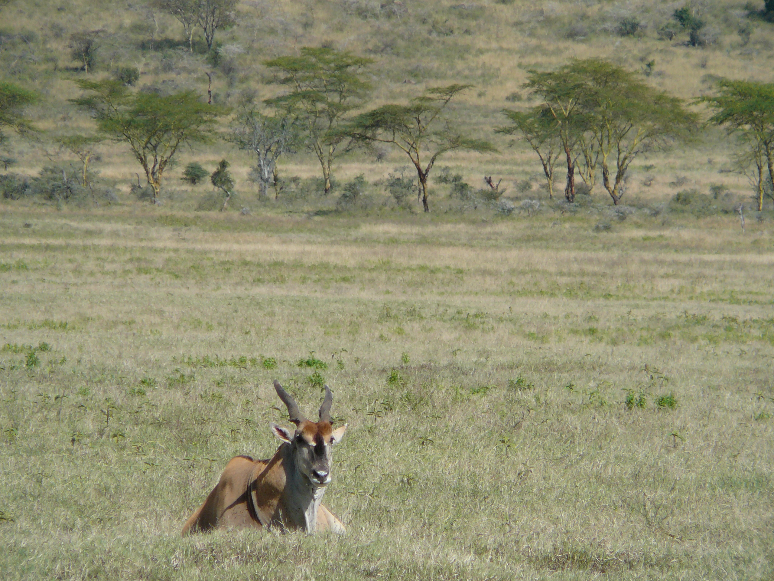 Common Eland.